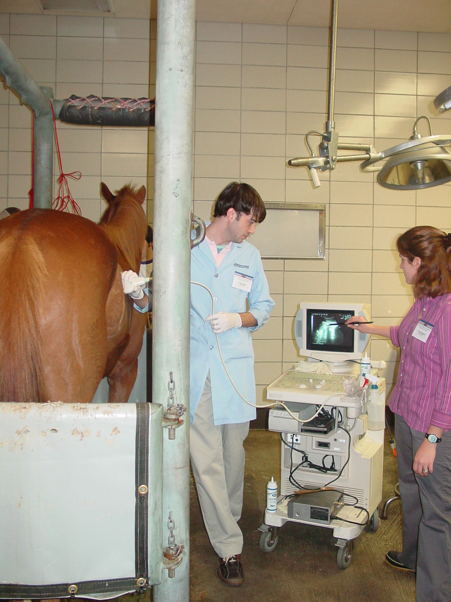 A veterinary student learns to perform and interpret ultrasound on horse at the College of Veterinary Medicine at the University of Florida in the United States in September 2006.